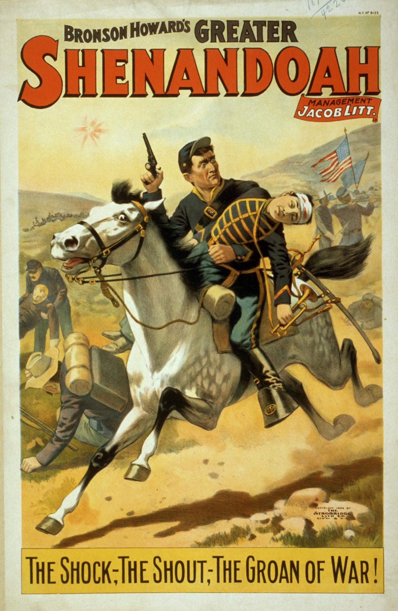 "Bronson Howard's greater Shenandoah. Caption: The shock, the shout, the groan of war."